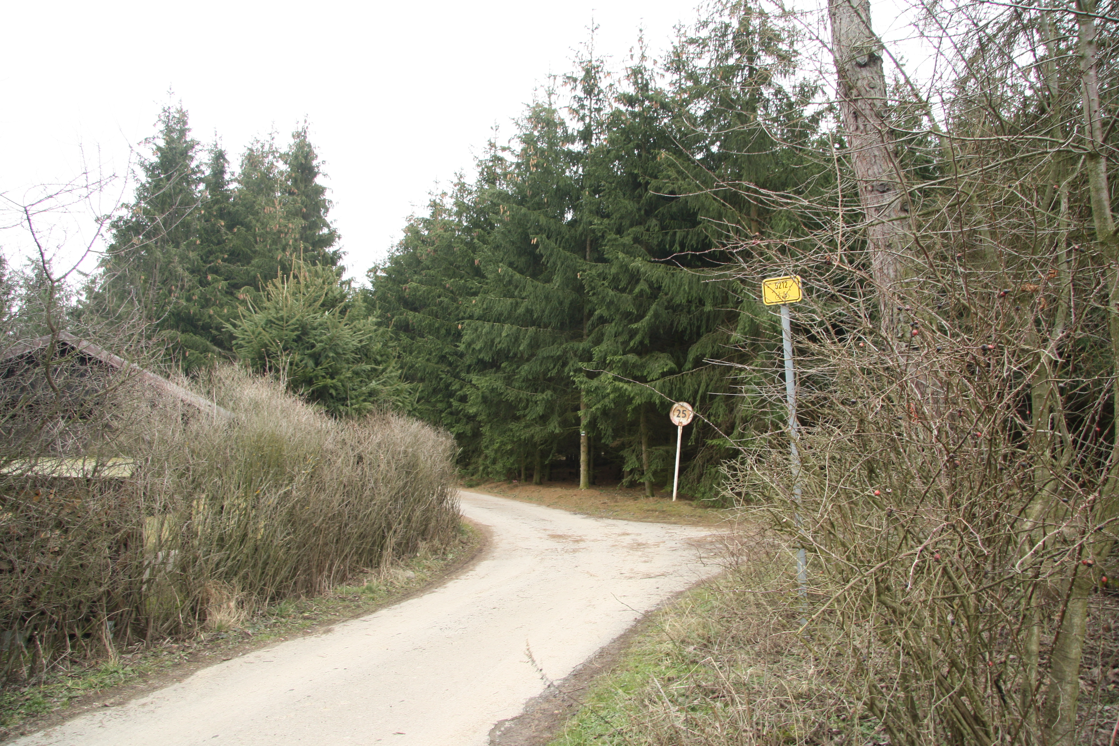 Bikeway 5212 near Steklý pond near Hvězdoňovice, Třebíč District.